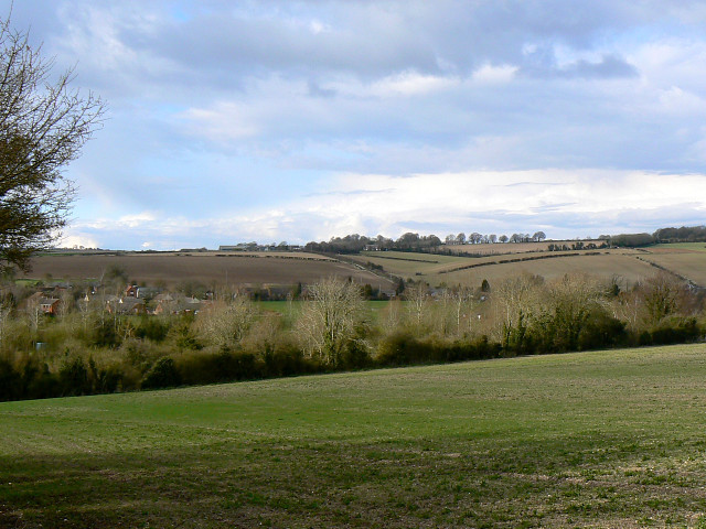 East of Mildenhall In the centre beyond the hedge is the site of the Roman settlement of Cunetio.